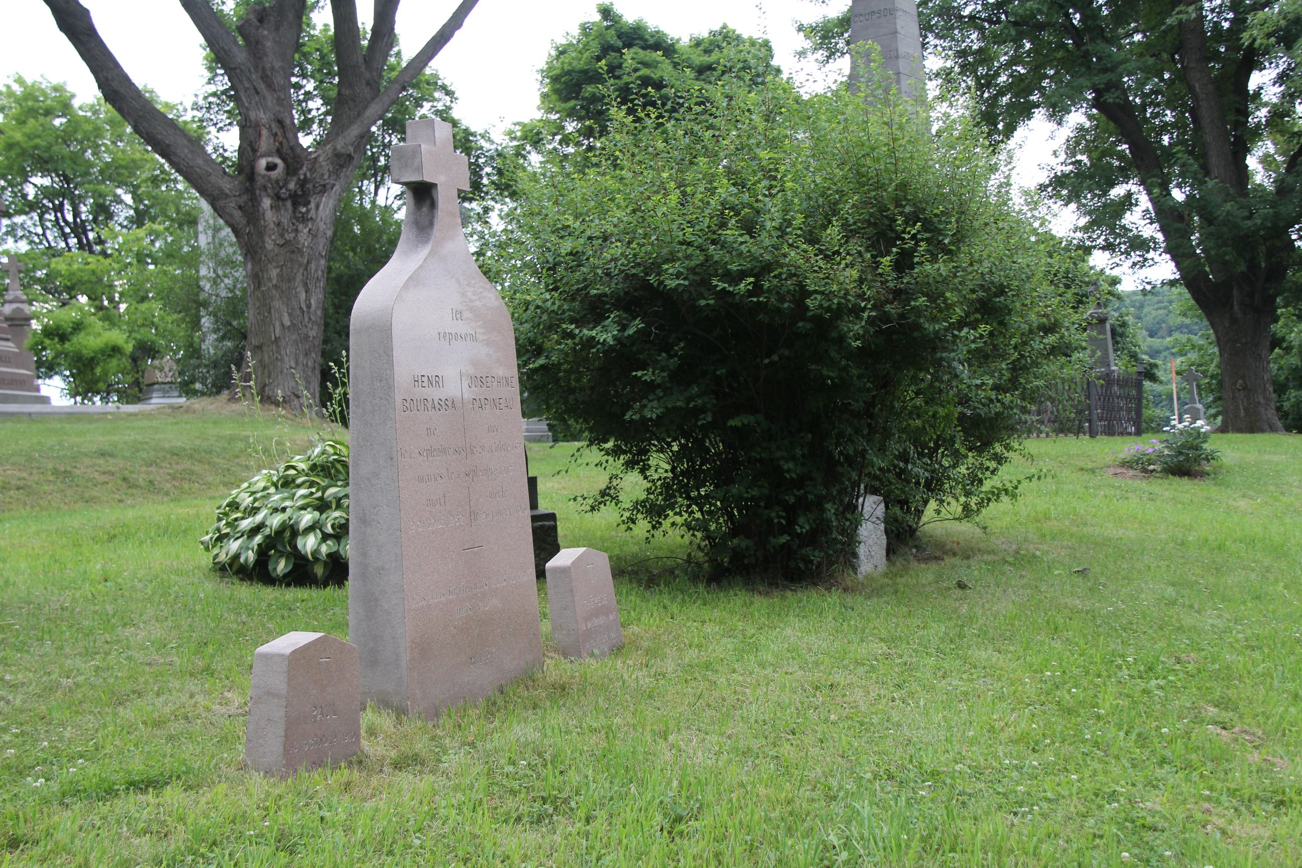 Henri Bourassa’s (1868-1952) tombstone, Notre-Dame-des-Neiges Cemetery (C300), Montreal.